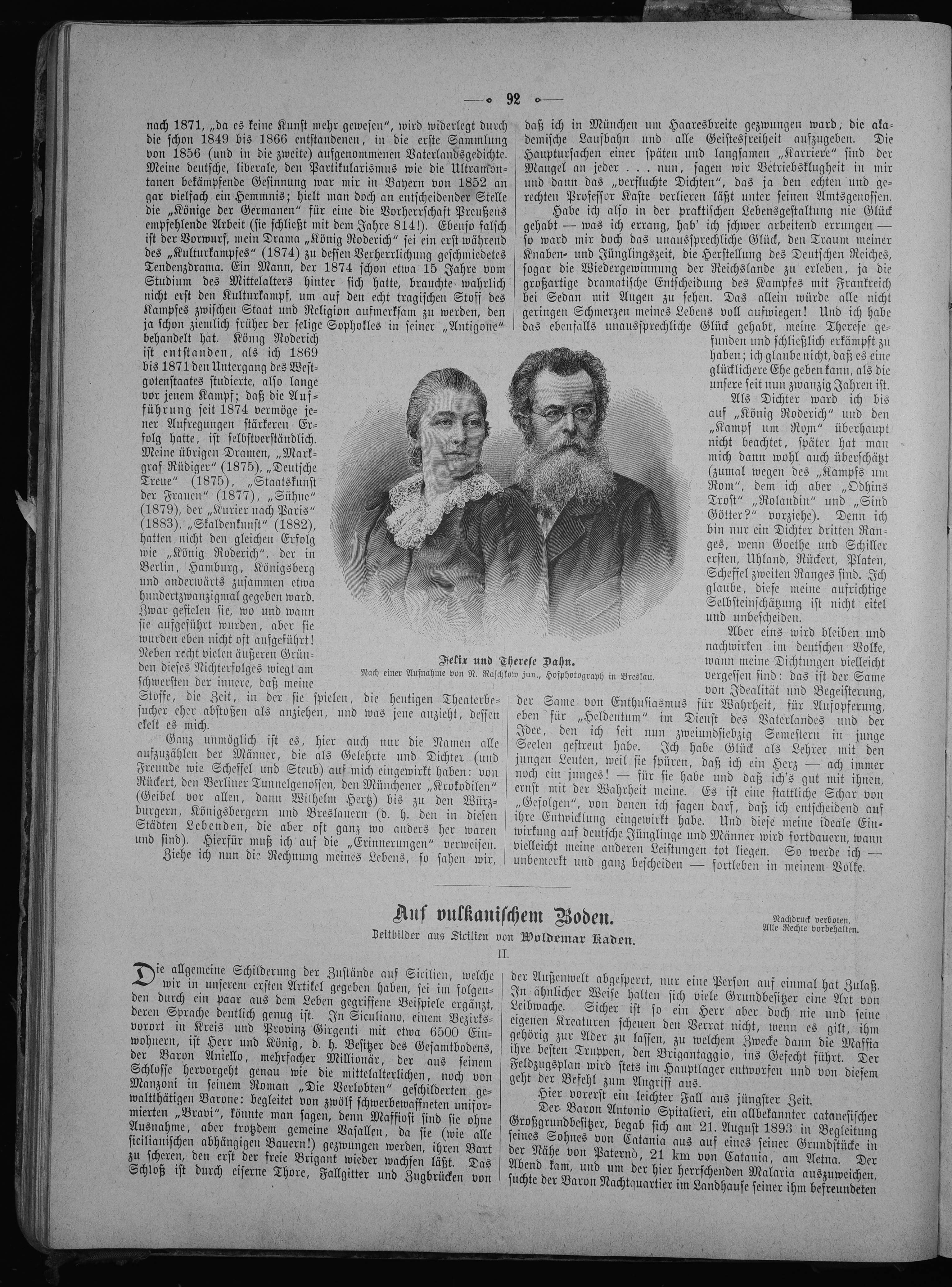 Page 92 from journal Die Gartenlaube for 1894. Extracted image (if any): File:Die Gartenlaube (1894) b 092.jpg - hi res, ~2.5 MB.